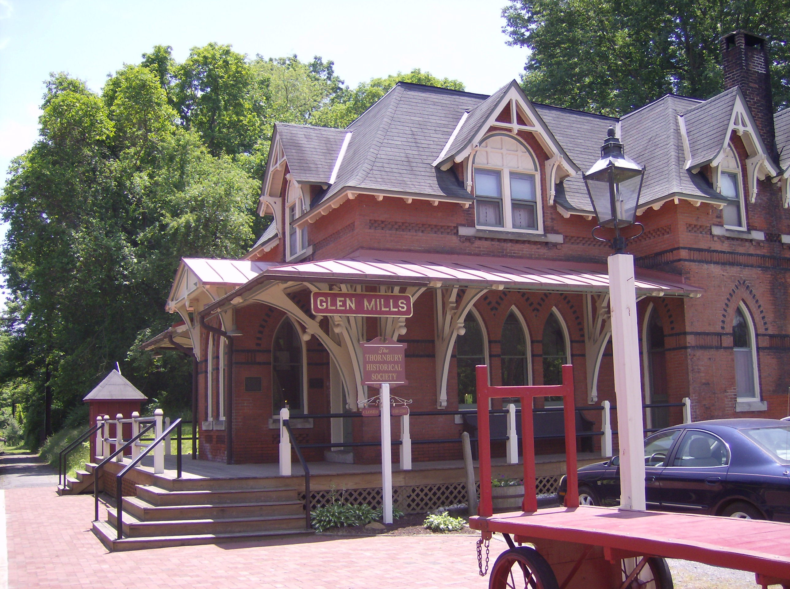 Glen Mills train station (now Thornbury Historical Society)